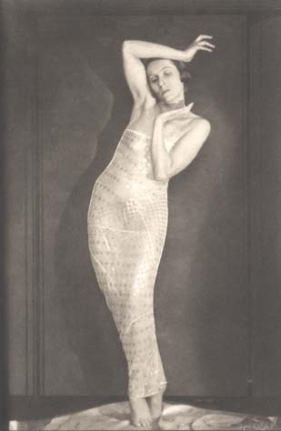 Photographic portrait dancer Ellinor Tordis